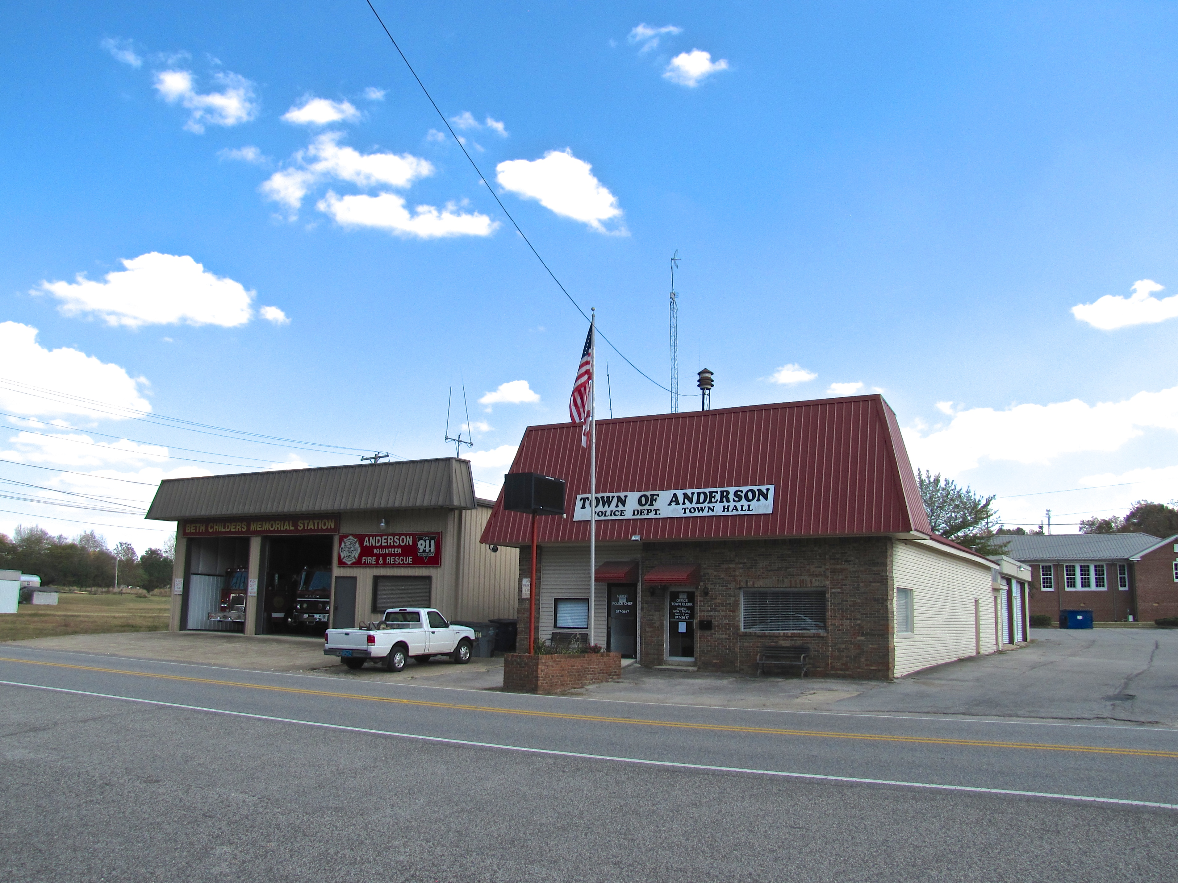 Town Hall and fire department (Beth Childers Memorial Station) in Anderson, Alabama, United States.